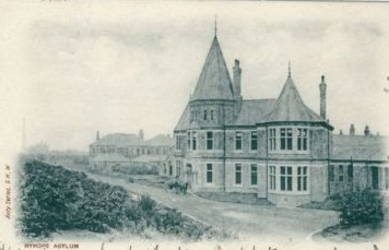 Old postcard showing Ryhope Asylum (later known as Cherry Knowle Hospital)